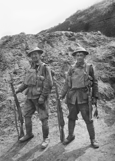 Front view of two diggers of the 5th Division, 4172 Private (Pte) George James Giles, 29th Battalion (left) and 4015 Pte John Wallace Anderton, 32nd Battalion, just out of the trenches, in full kit (with mud), including webbing with ammunition pouches and trenching tool. The gas mask (small box respirator) is worn at the 'alert' position in front of the chest. Pte Anderton has a canvas breech cover on his rifle. Pte Giles' entire complete uniform and rifle are held by the Australian War Memorial